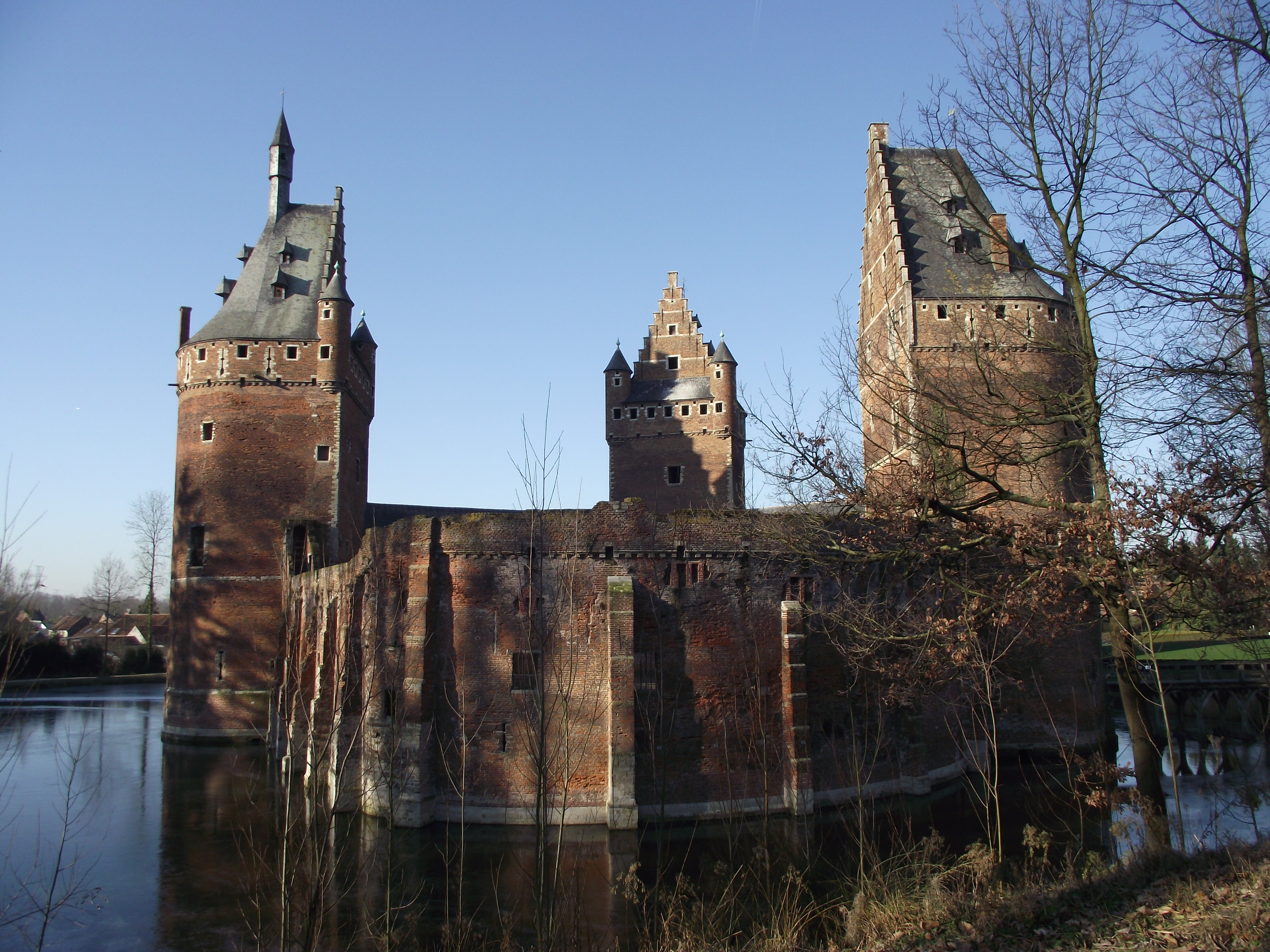 Castle of Beersel, XVI Century